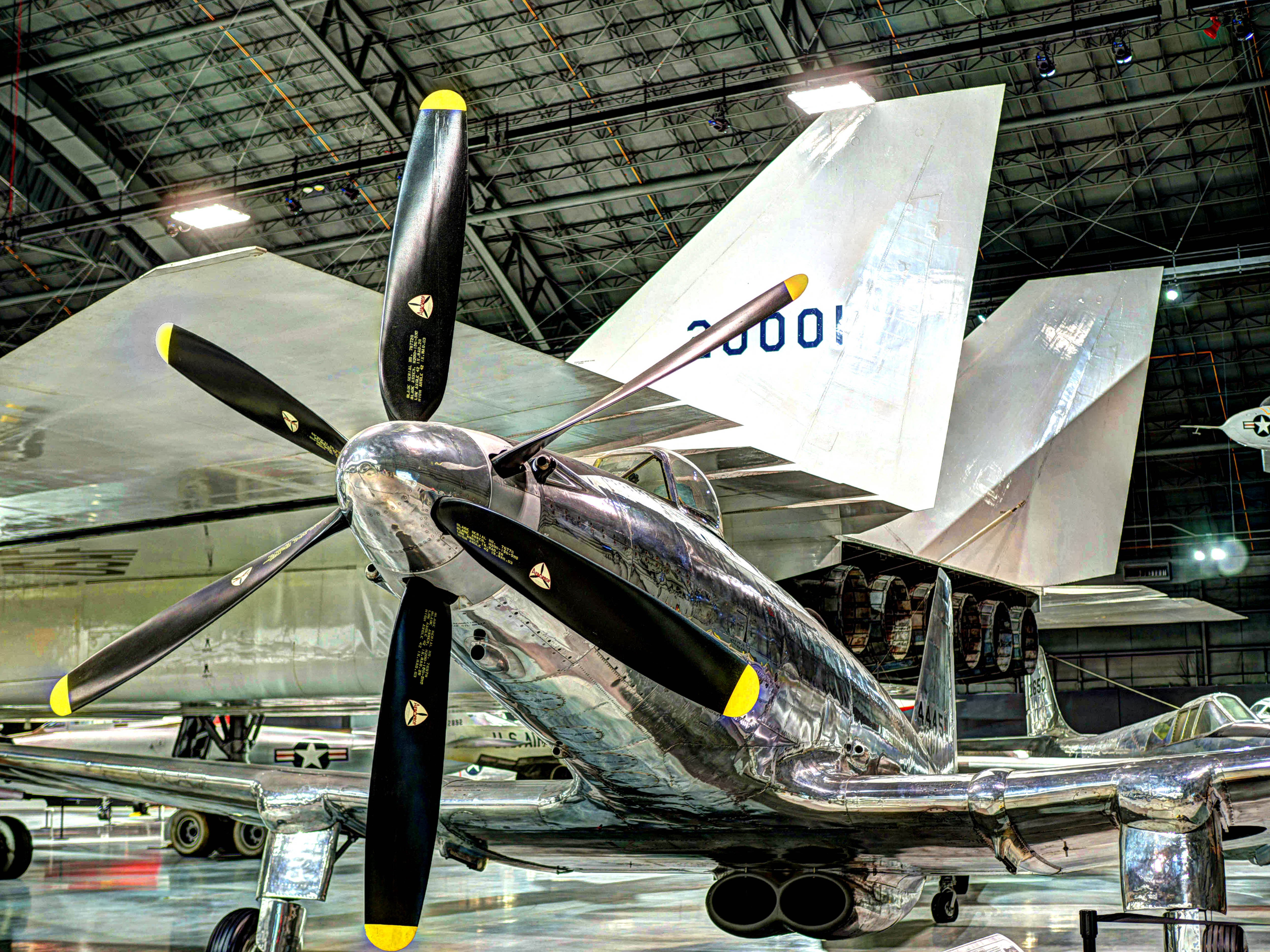 The last production P-75A, now in the USAF Museum in Dayton, OH